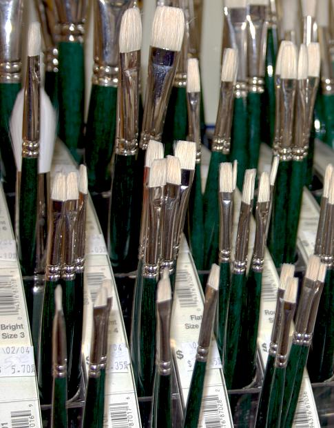 Different styles of paintbrushes, 2004, by Rick Dikeman